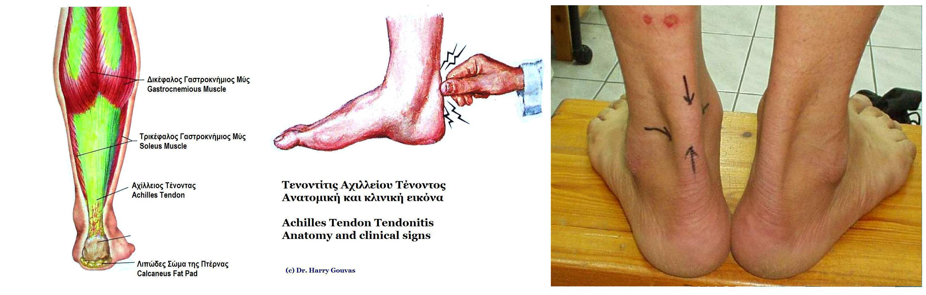 Achilles tendon tendonitis